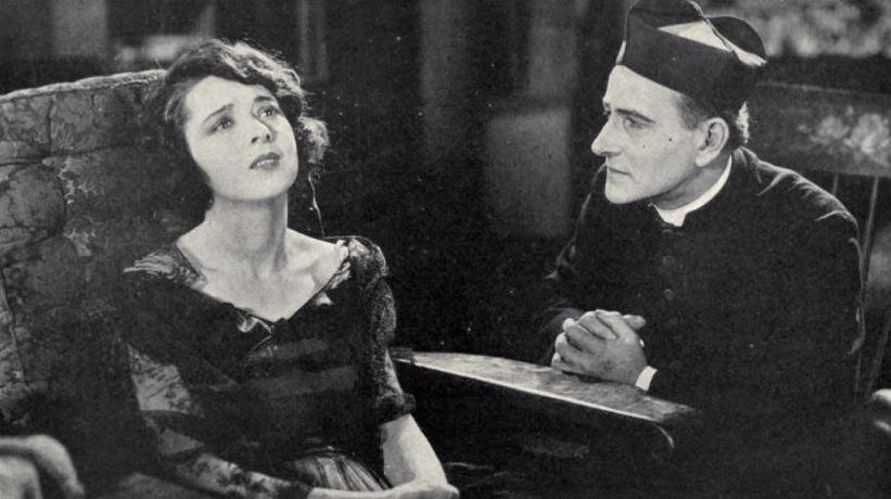 Still from the American drama film Slippy McGee (1923) with Colleen Moore and an unidentified actor, on page 135 of Screen Acting.